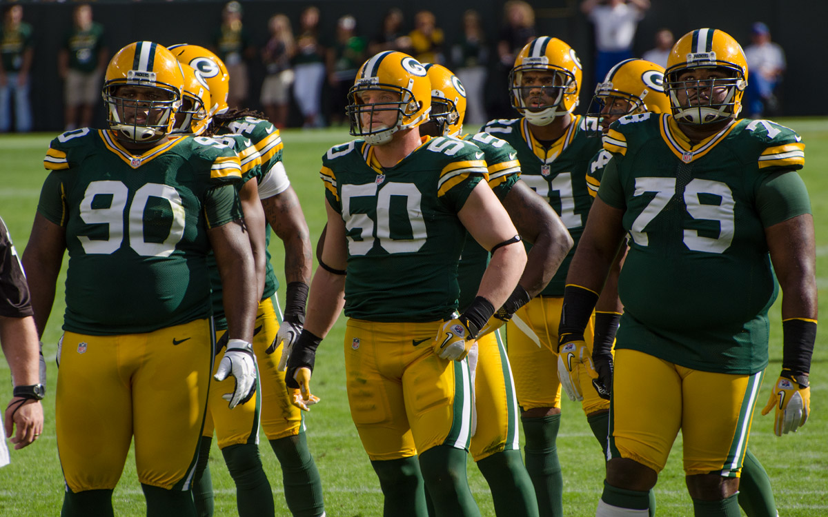 San Francisco 49ers vs. Green Bay Packers at Lambeau Field on September 9, 2012. Photo by Mike Morbeck.